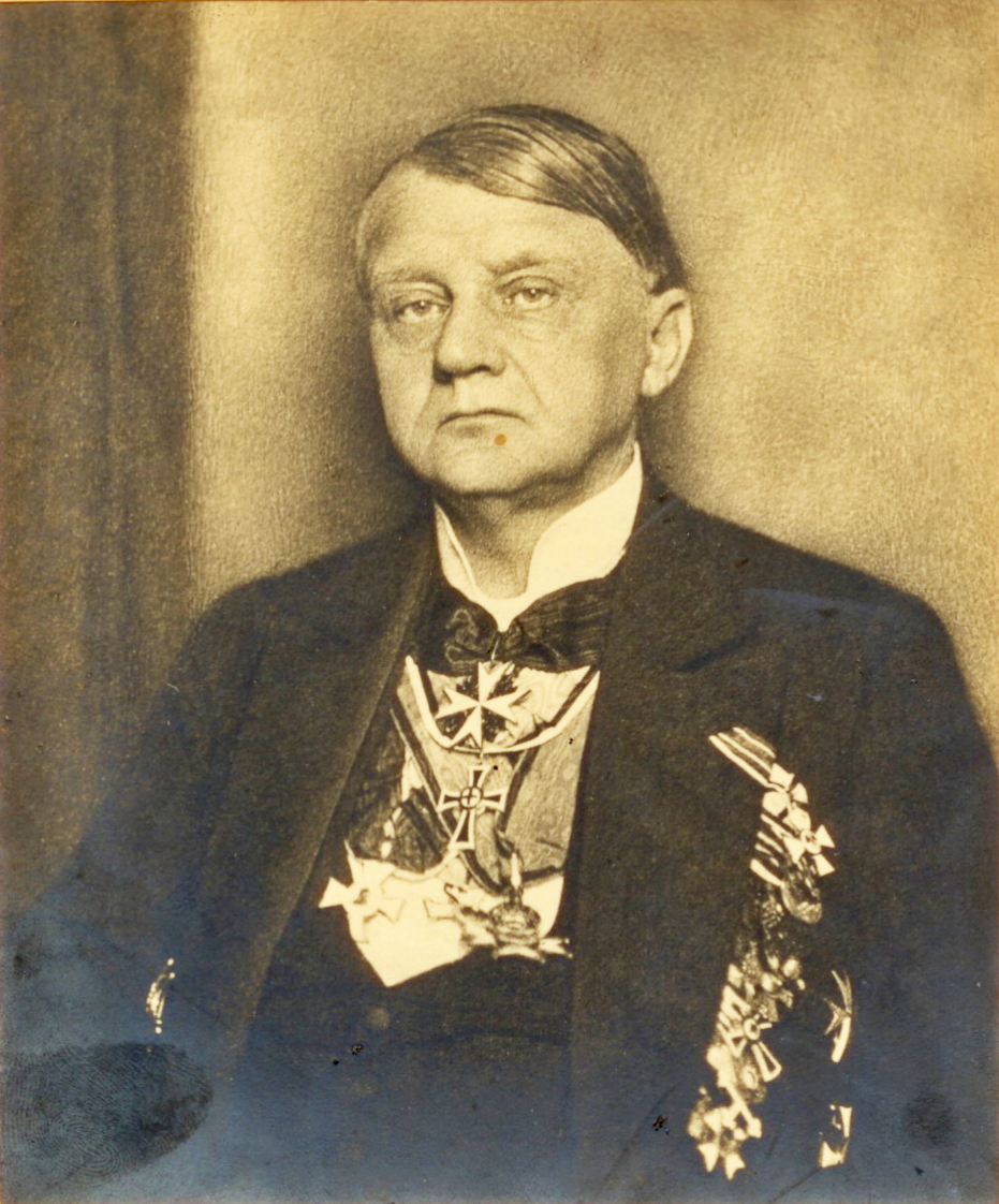 August Freiherr von der Heydt 1851 - 1929